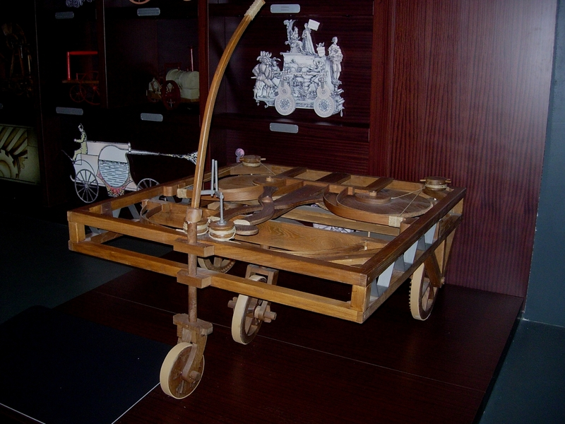 vehicle of Leonardo da Vinci